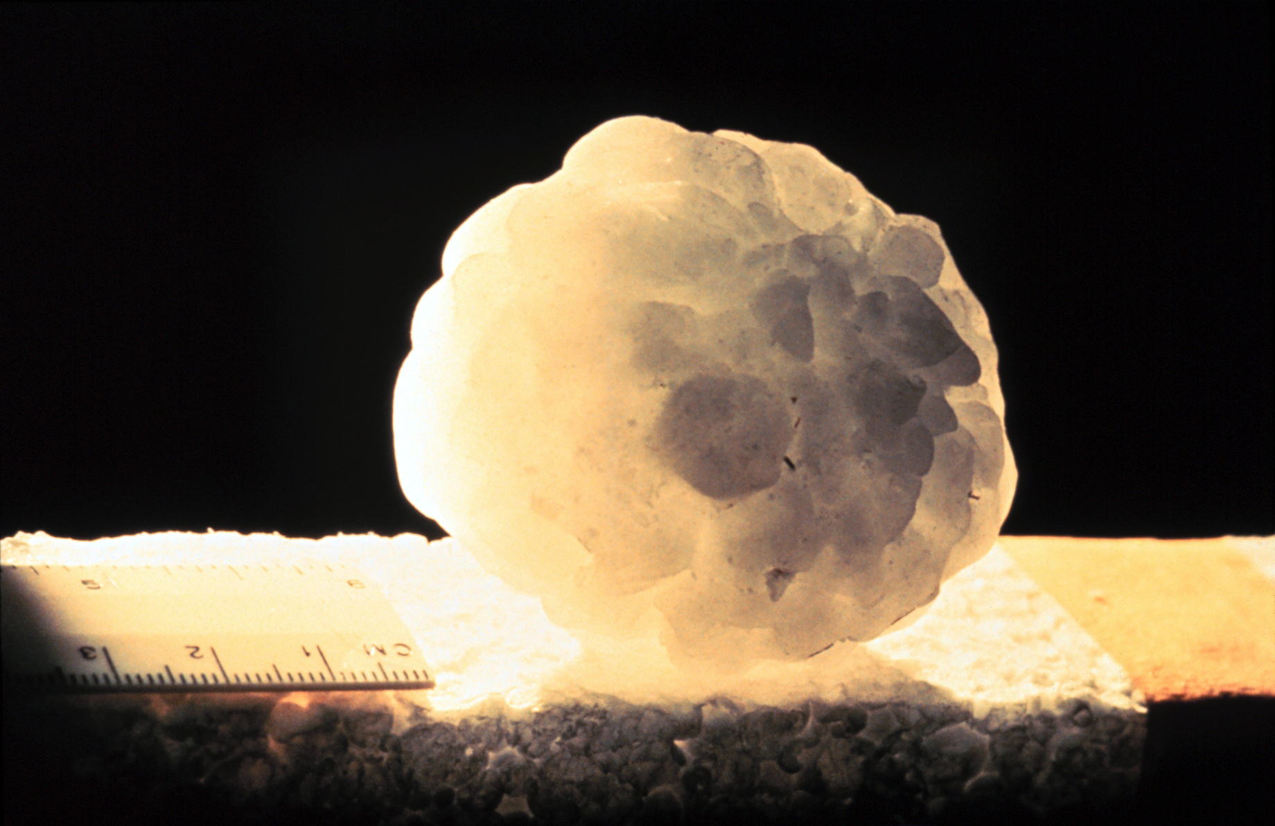 Aggregate hailstone. Large hailstone with smaller stones visible. Ruler shows radius of this remarkable hail stone. Diameter is approximately 6 cm, in contradiction to the text on the source page which states that the diameter is 6 inches.